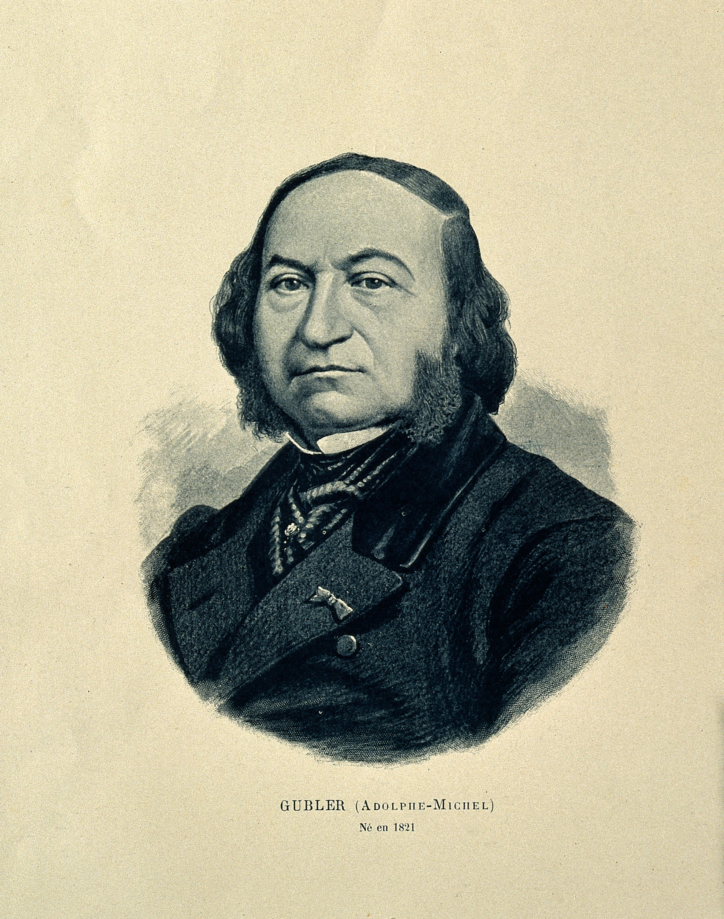 Adolphe-Michel Gubler. Reproduction of lithograph, 1896. Iconographic Collections Keywords: portrait prints; Adolphe-Marie Gubler